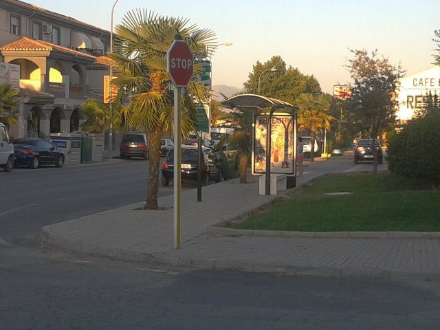 Corner Royal Street with León Felipe Street, in Láchar (Granada, Spain).